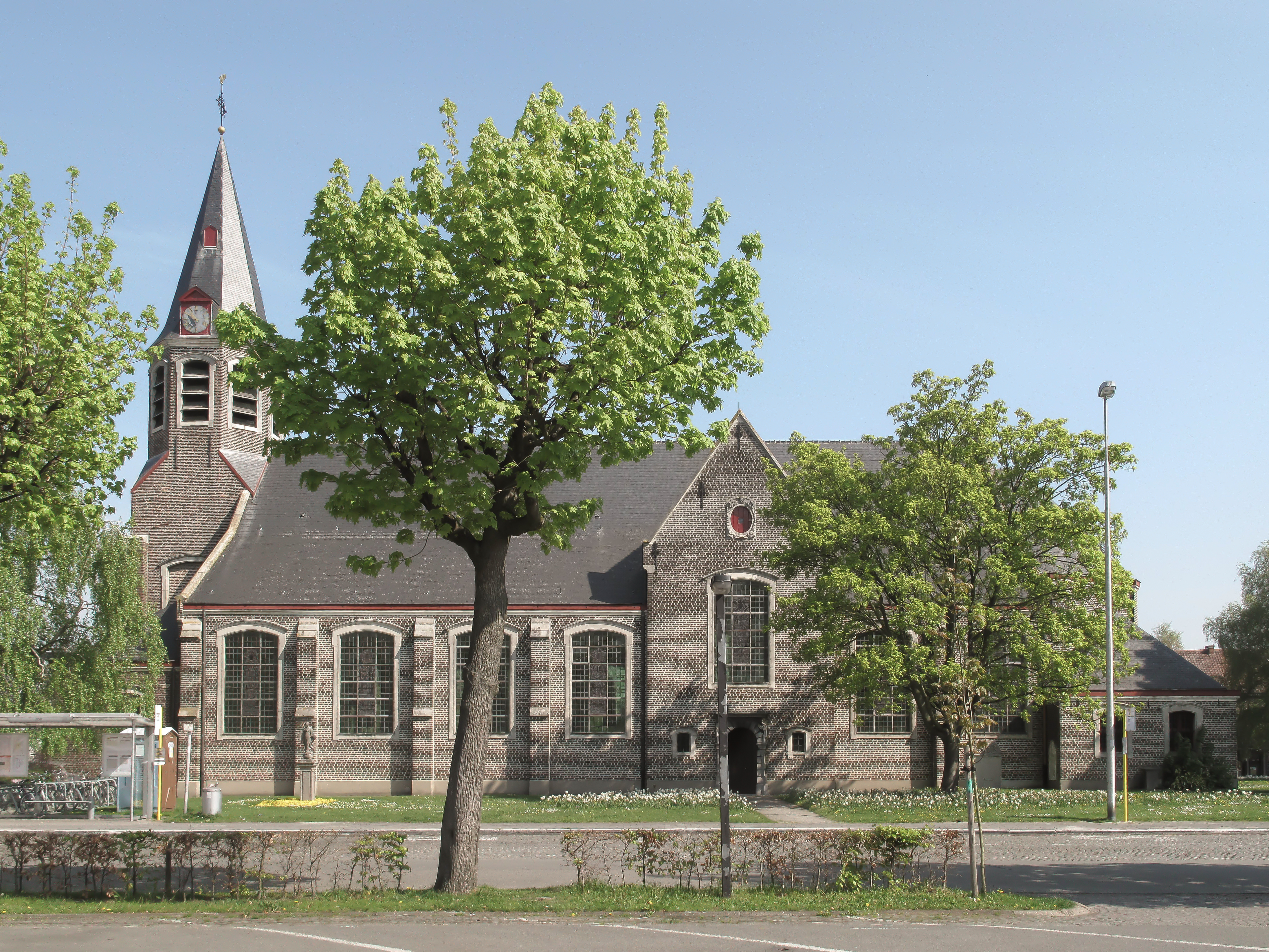 Oostakker, church: de Sint Amanduskerk